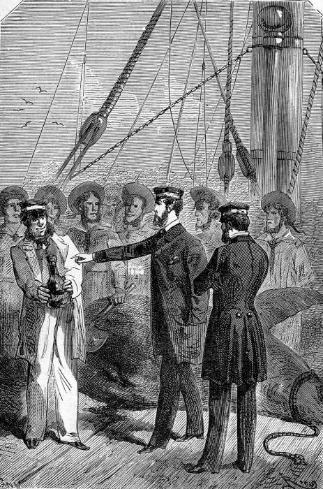 An ilustration from the novel "In Search of the Castaways; or Captain Grant's Children" by Jules Verne drawn by Édouard Riou.